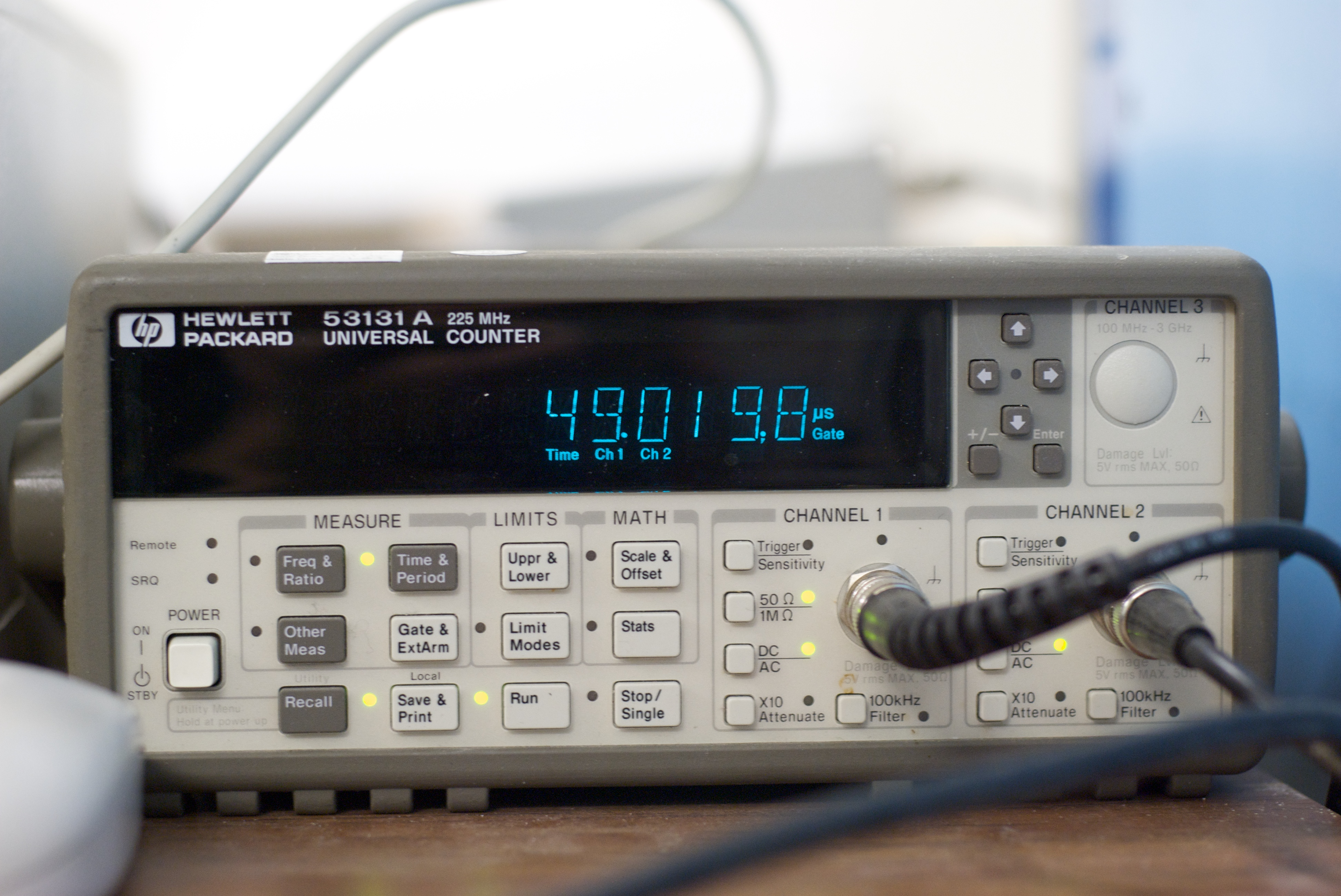 Hewlett Packard universal counter